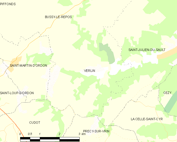 Map of French municipality Verlin